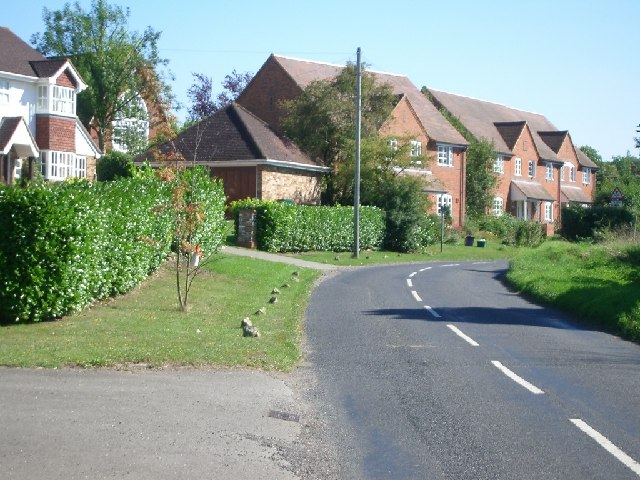 Houses in Ripley Lane, West Horsley. looking south-east